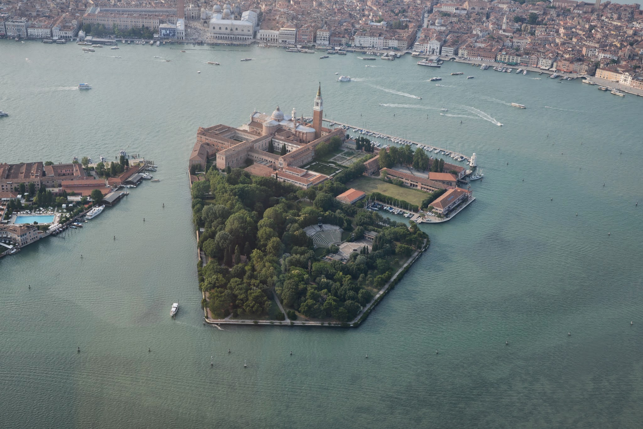 Aerial photographs of Venice